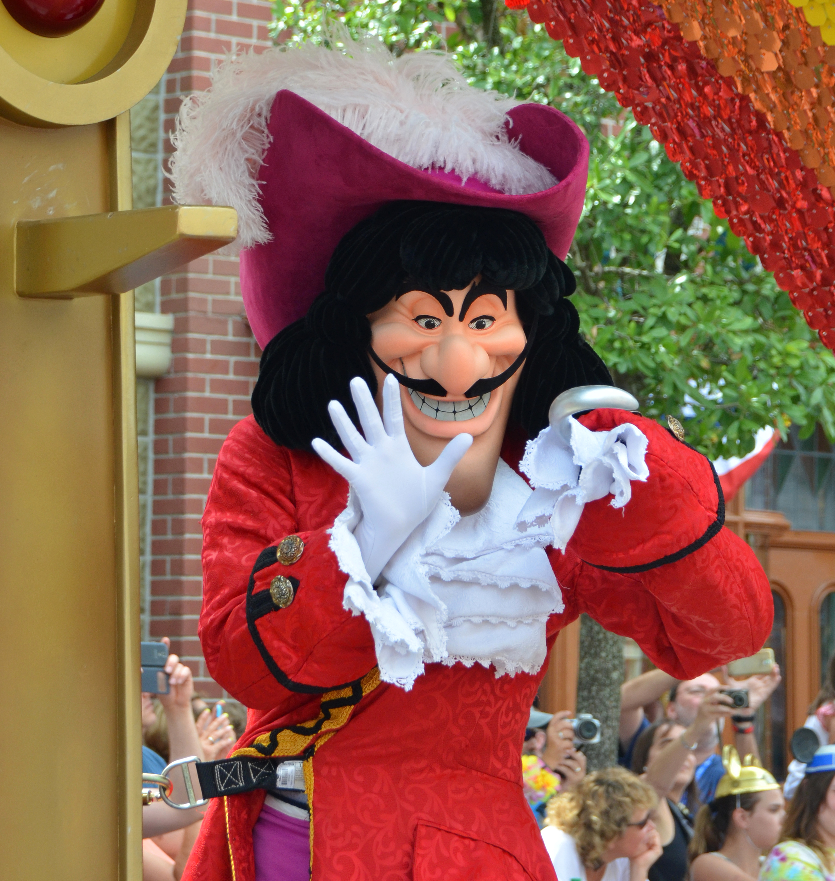 Captain Hook during Disney Parade, Orlando, Florida.